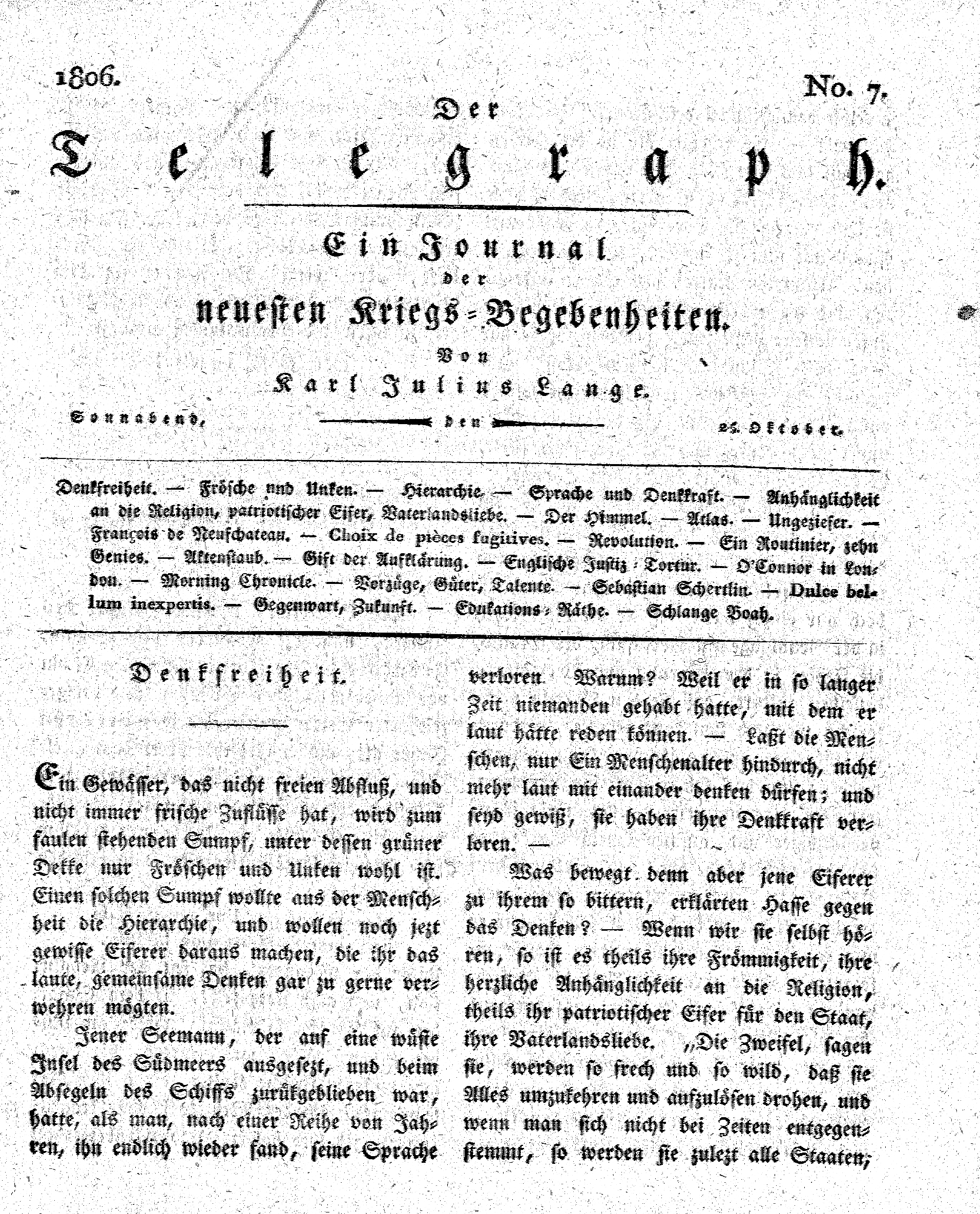 Article about "Denkfreiheit" (Freedom of thinking) in the Berlin "Telegraph"